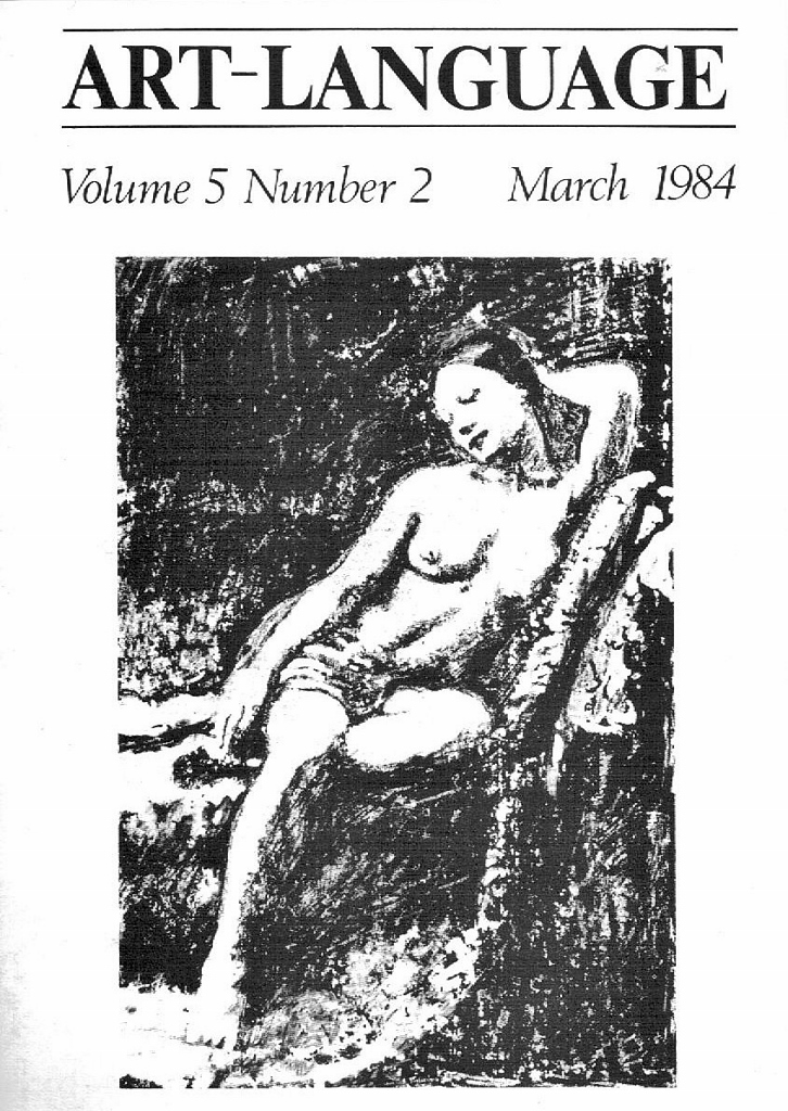 Art-Language Volume 5 Number 2 March 1984 by Art & Language including the libretto for the opera Victorine.